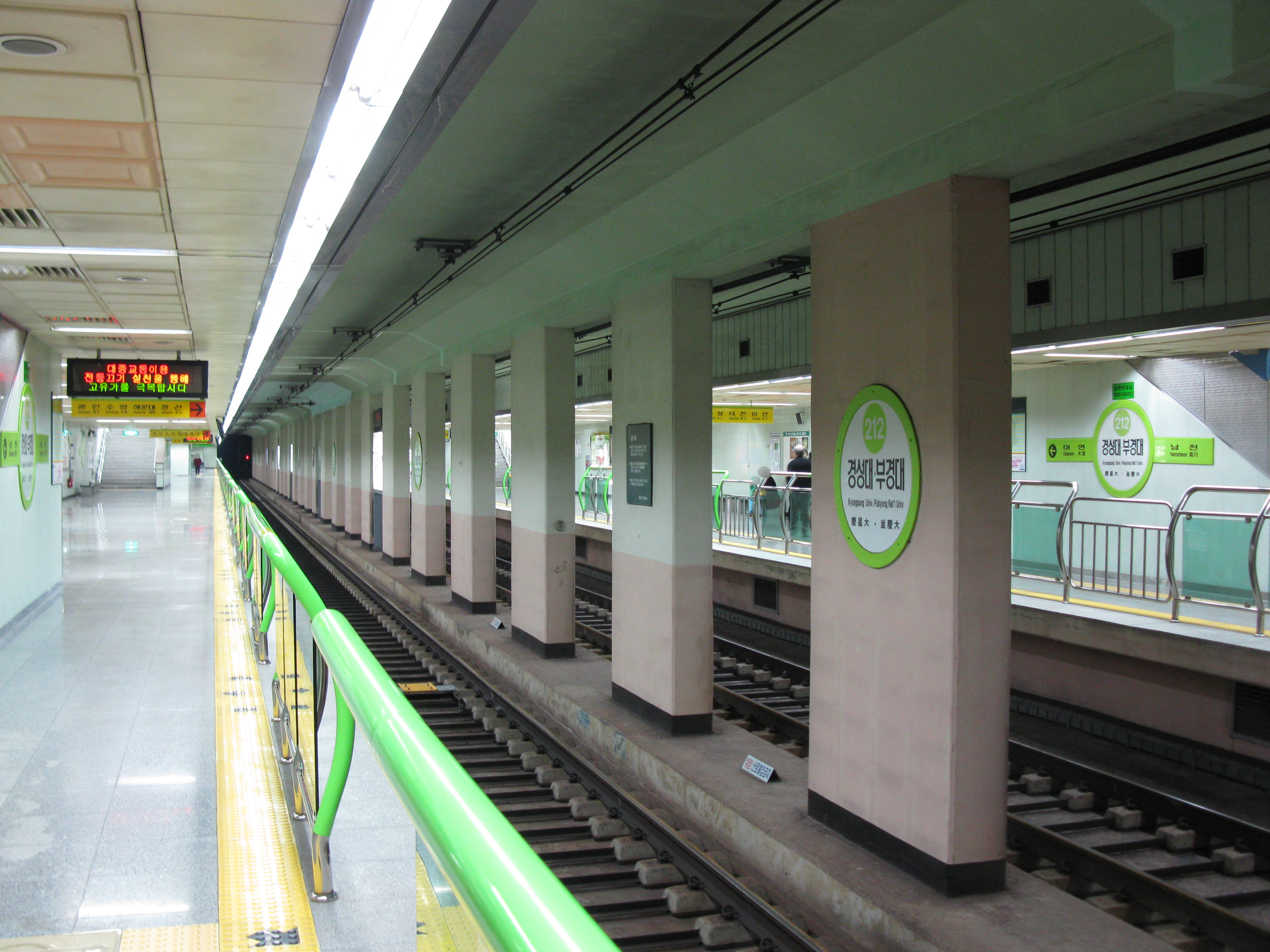 Kyungsung University-Pukyong National University Station platform (Busan Subway Line 2)